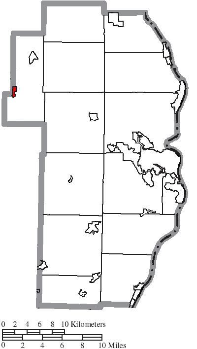 Map of the municipal and township boundaries of Jefferson County, Ohio, United States, as of the 2000 census, with the location of the village of Amsterdam highlighted. Township borders are shown only in unincorporated areas in order to differentiate incorporated and unincorporated areas more clearly.